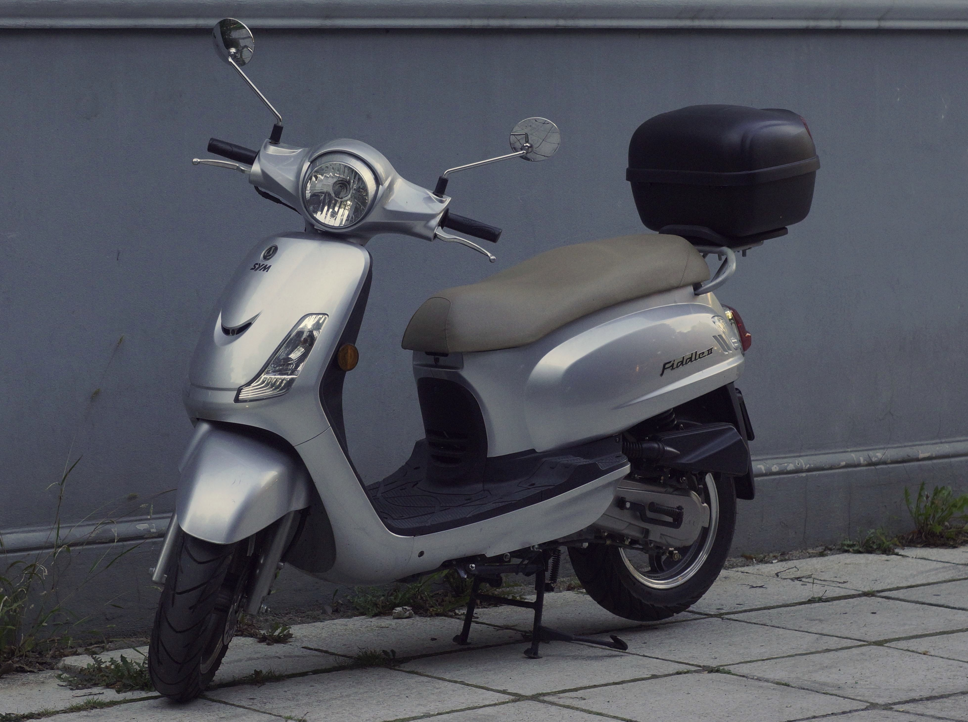 a SYM scooter Fiddle II.